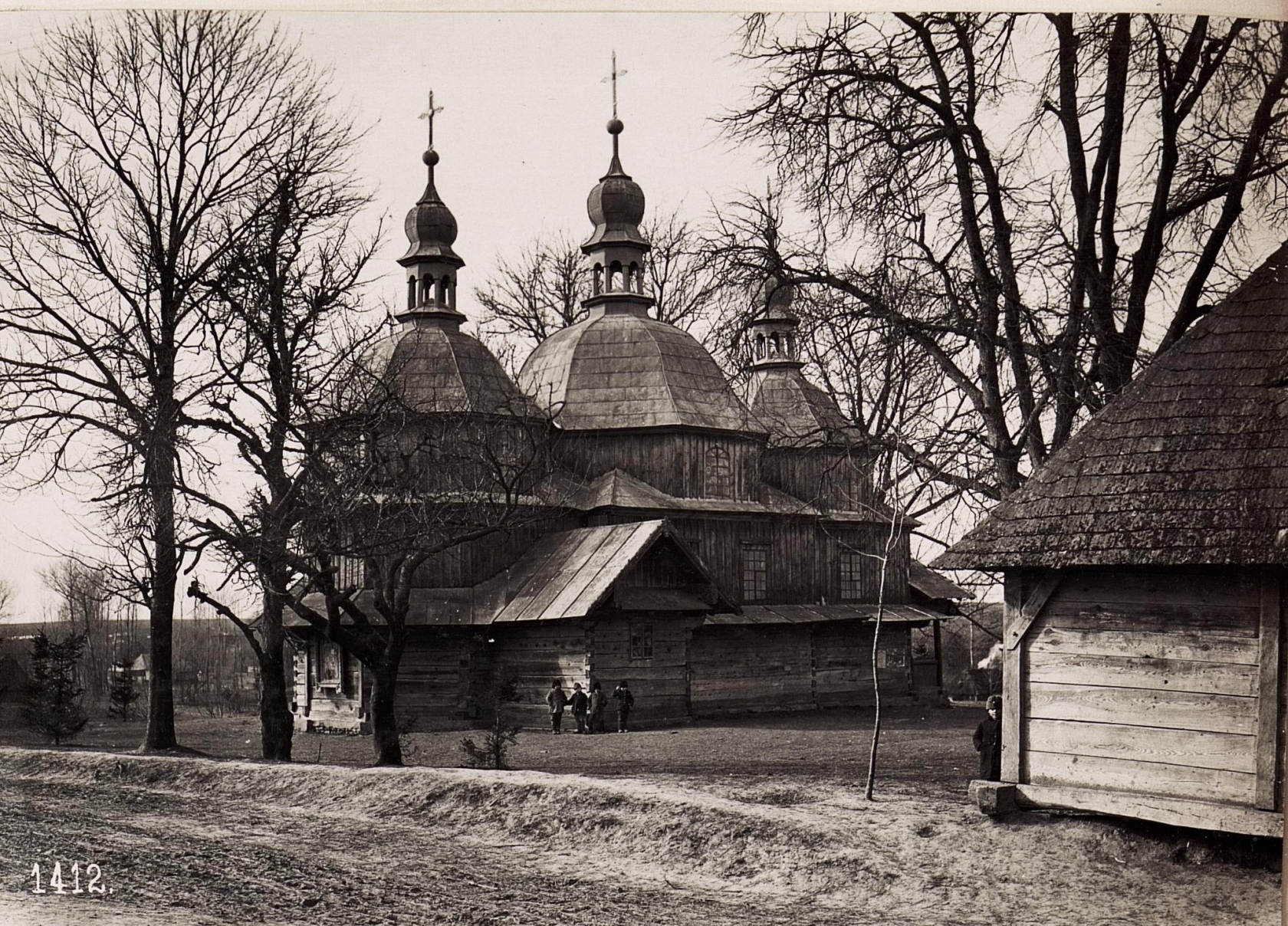 Corobrow: Kirche. (20/II.1918.)